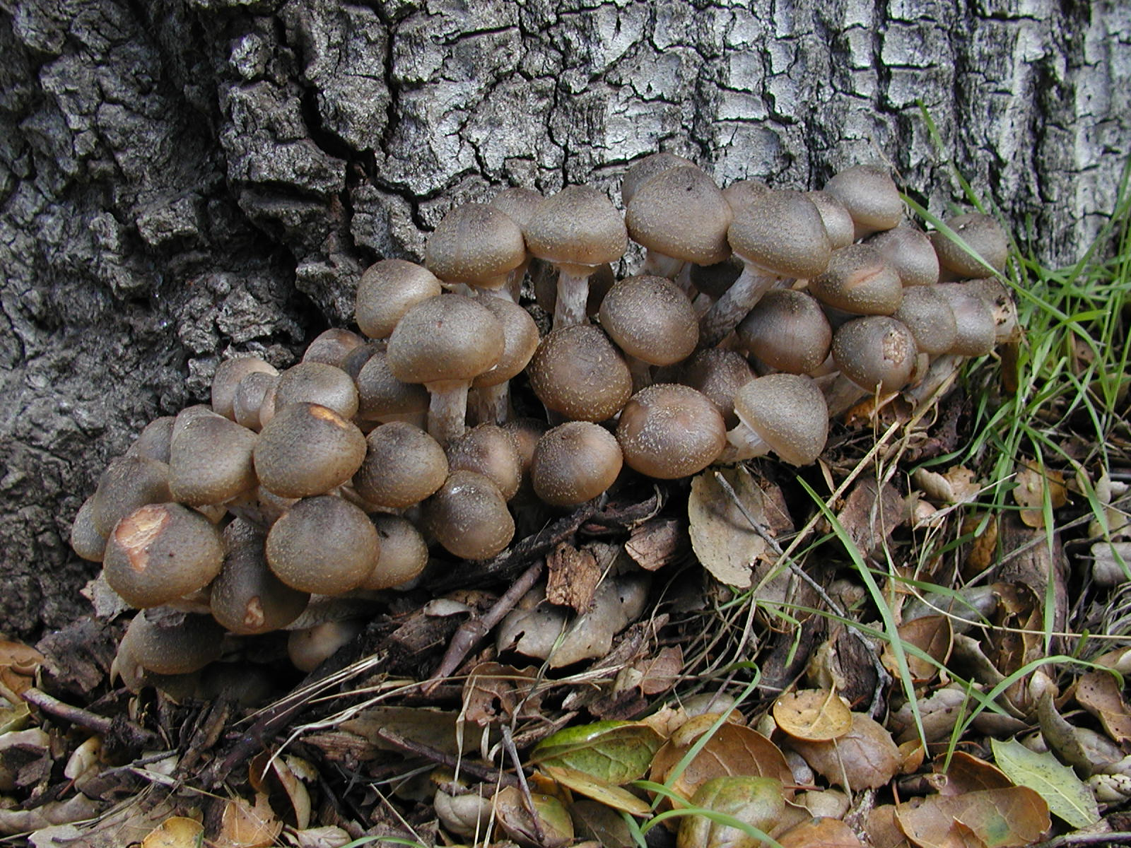 Armillaria mellea (Vahl) P. Kumm. Location: Chumash Interpretive Center, Thousand Oaks, Ventura Co., California, USA Observation Notes: Identified by sight. Image Notes: Loaded from Armillaria/mellea/2002-01-05-1.jpg. For more information about this, see the observation page at Mushroom Observer.